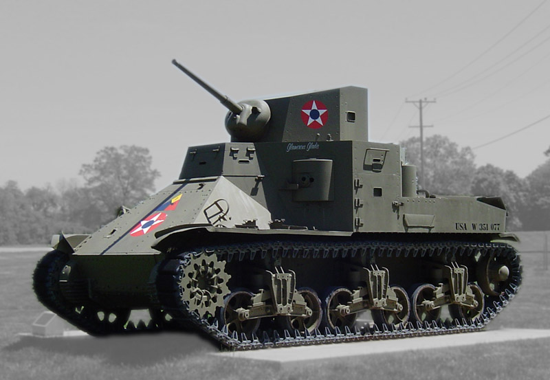 M2A1 Medium on display at the US Army Ordnance Museum in Aberdeen. The picture taken May 7, 2007.